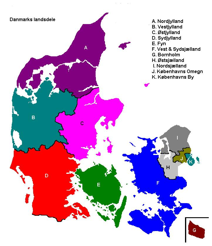 The eleven NUTS 3 statistical regions of Denmark (Danmarks landsdele). A - Nordjylland (North Jutland) B - Vestjylland (West Jutland) C - Østjylland (East Jutland) D - Sydjylland (South Jutland) E - Fyn (Funen) F - Vest- og Sydsjælland (West and South Zealand) G - Bornholm H - Østsjælland (East Zealand) I - Nordsjælland (North Zealand) J - Københavns omegn (Copenhagen surroundings) K - Byen København (Copenhagen City)